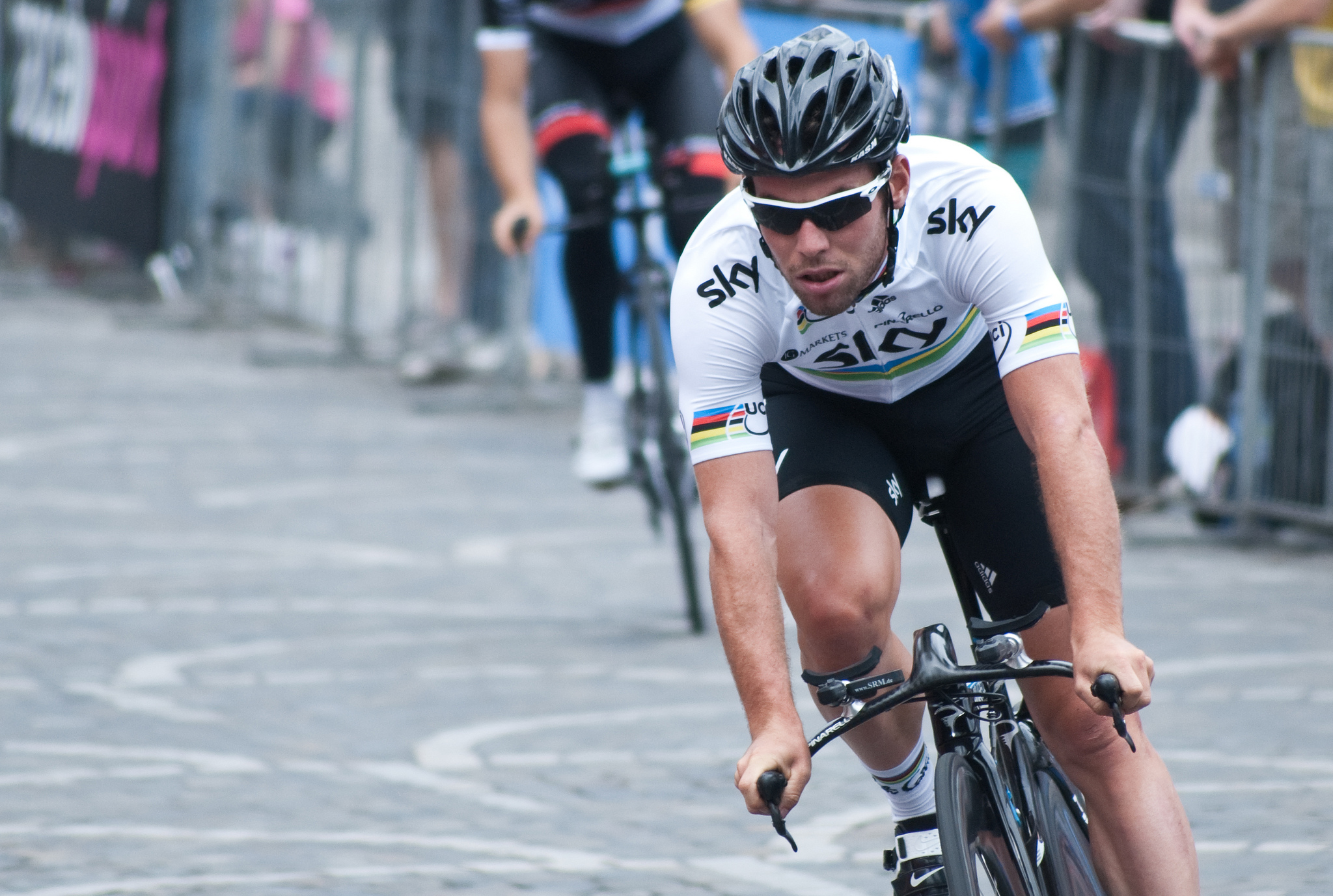 102 Mark Cavendish